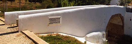 Photo taken for work. It let's us see the Roman Bridge of Quelfes in all of the extension.